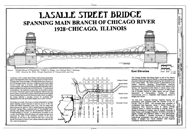 HABS drawing of the LaSalle Street Bridge over the Chicago River.